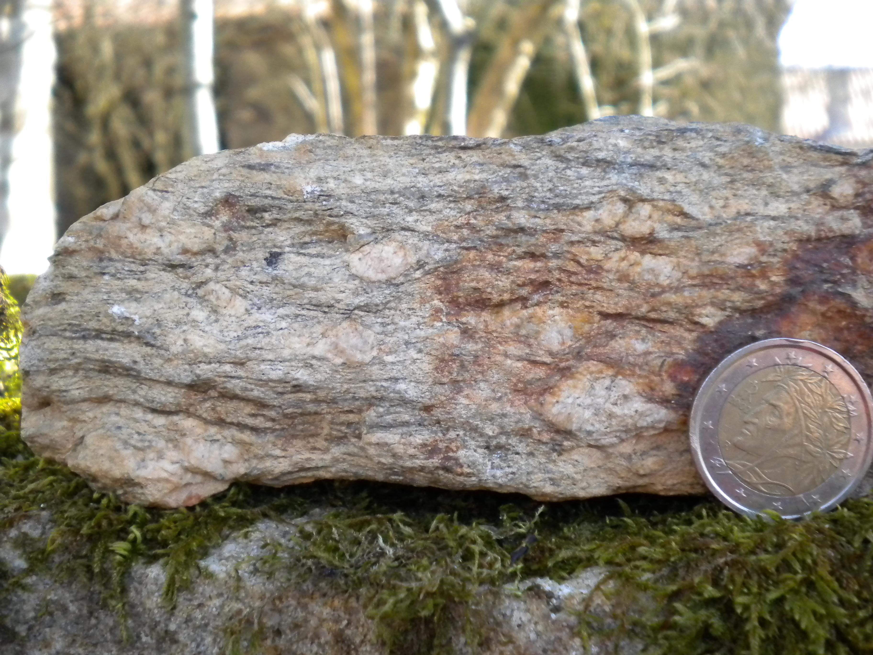 Augengneis sample found at the reservoir of Mialet, Dordogne, France. The rock has got leptynitic character and probably is derived from acid volcanics or their erosion products. It belongs to the Lower Gneiss Unit of the Massif Central.